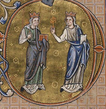 Two female personifications (probably Mercy and Truth), from an historiated letter in the "Peterbourough Psalter, Fitzwilliam Museum MS 12, fol. 12v